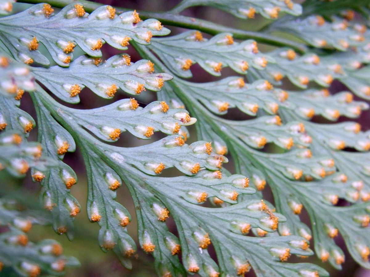 Fern West Head underside sori, likely to be Davallia solida var. pyxidata. Ku-ring-gai Chase National Park, Australia